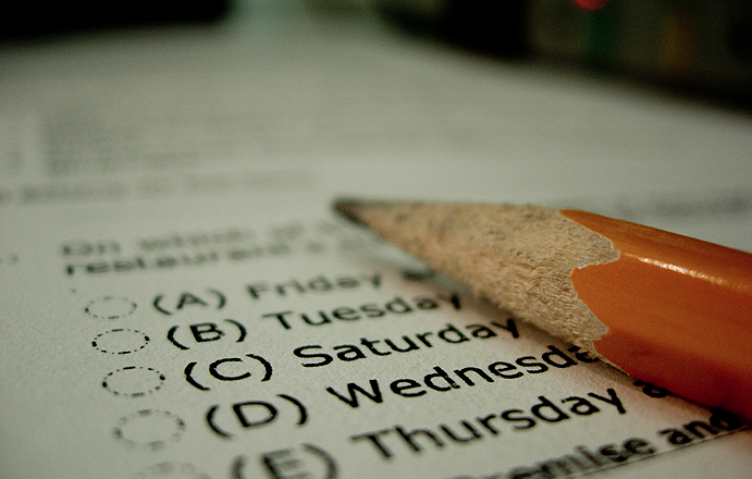 A sample multiple-choice test, with answers being days of the week.